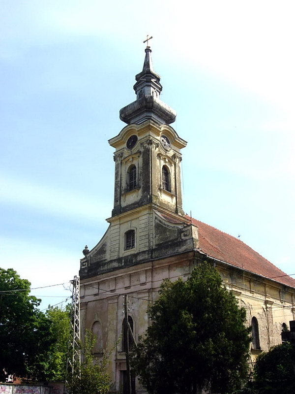 The Saint Charles Bormeian Catholic Church in Banatski Karlovac.